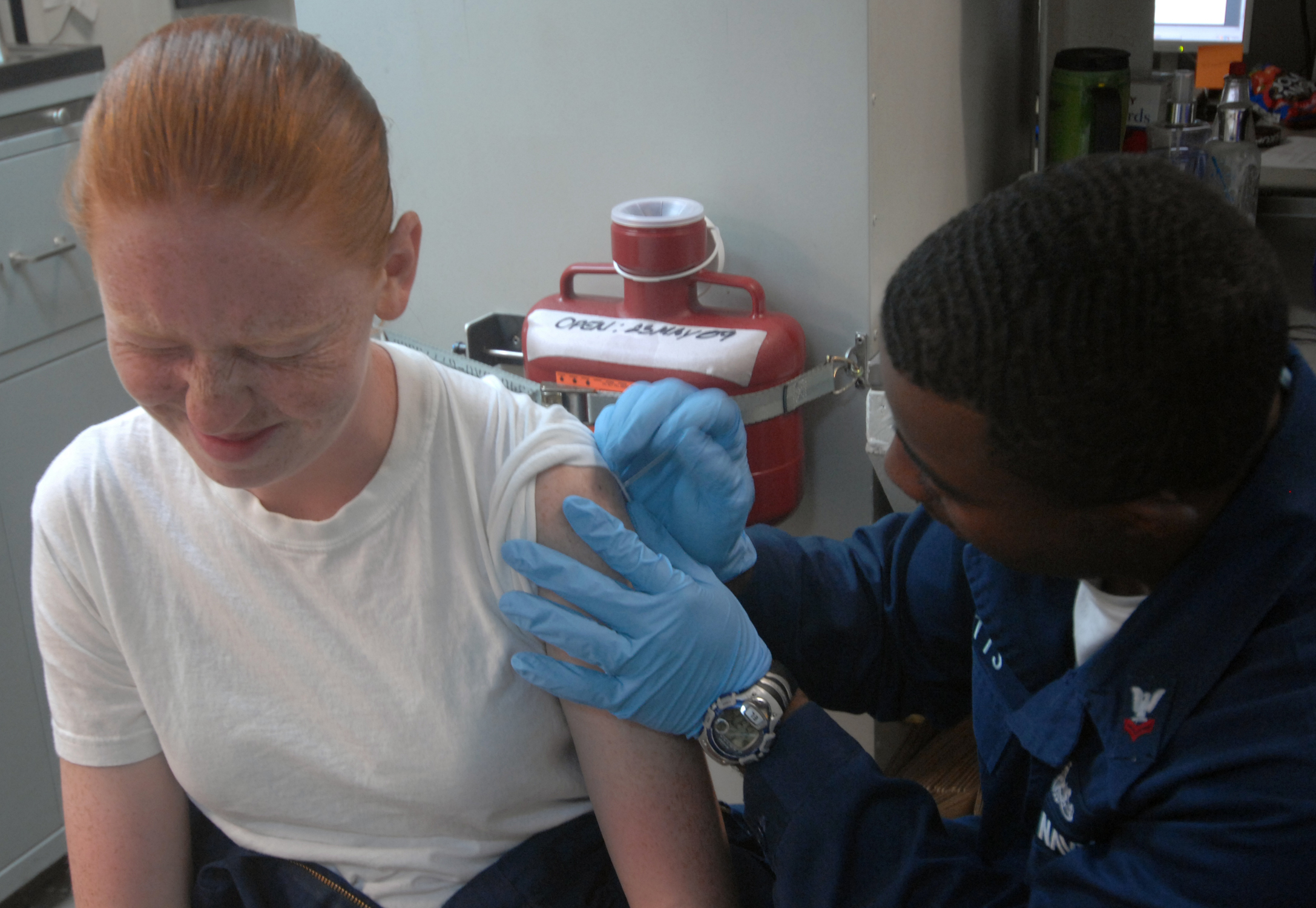 MEDITERRANEAN SEA (June 4, 2009) Hospital Corpsman 2nd Class Edward Batts administers a smallpox vaccine to Electronics Technician 3rd Class Angela Burton aboard the guided-missile destroyer USS James E. Williams (DDG 95). James E. Williams is deployed to the U.S. 5th Fleet area of responsibility supporting maritime security operations. (U.S. Navy photo by Mass Communication Specialist 2nd Class Laura A. Moore/Released)